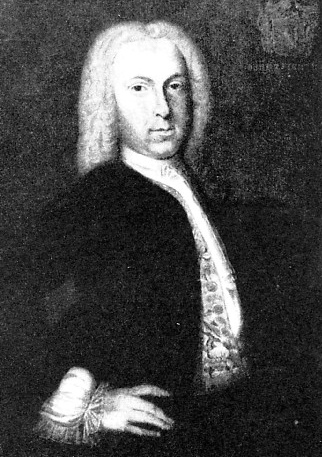 Jacques Bernard van Ockerhout (1713-1754)